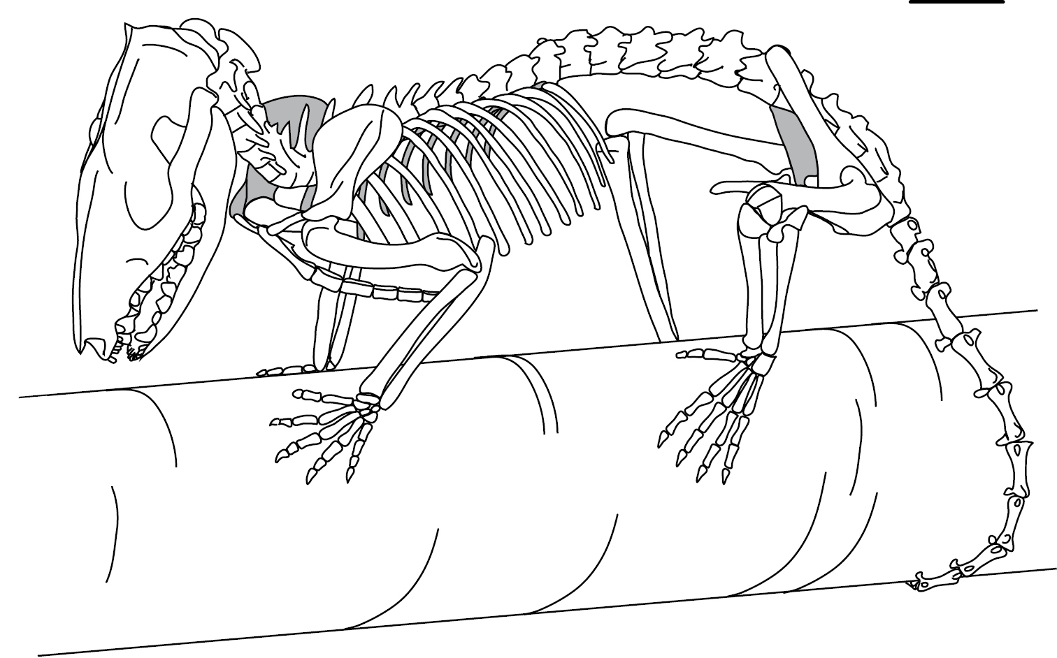 Skeleton of Monodelphis domestica. Scale bar is 1 cm.